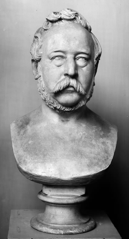 H.W. Bissen (1798-1868), Kobberstikkeren Carl Edvard Sonne, 1860